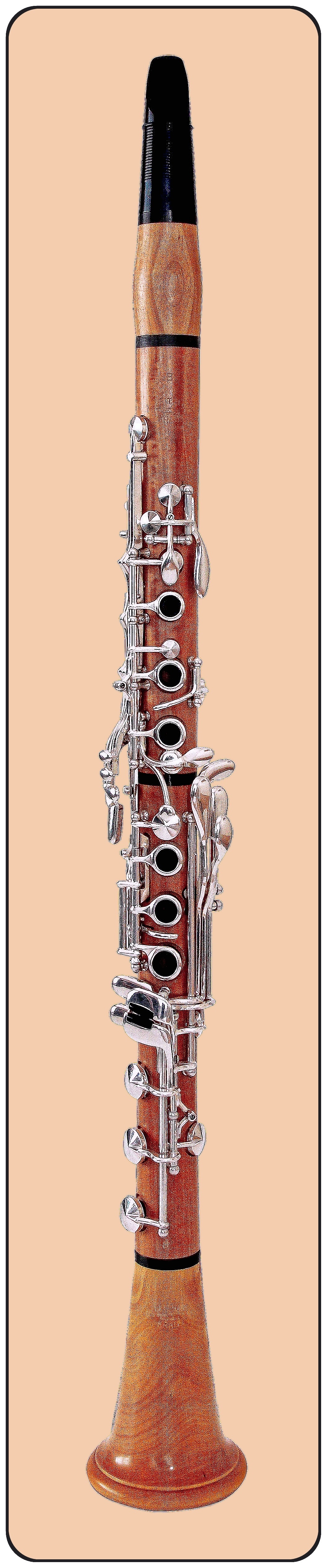 Clarinet in Bb from boxwood